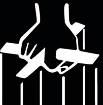 Puppetmaster hand from The Godfather movie poster isolated and slighlty edited.